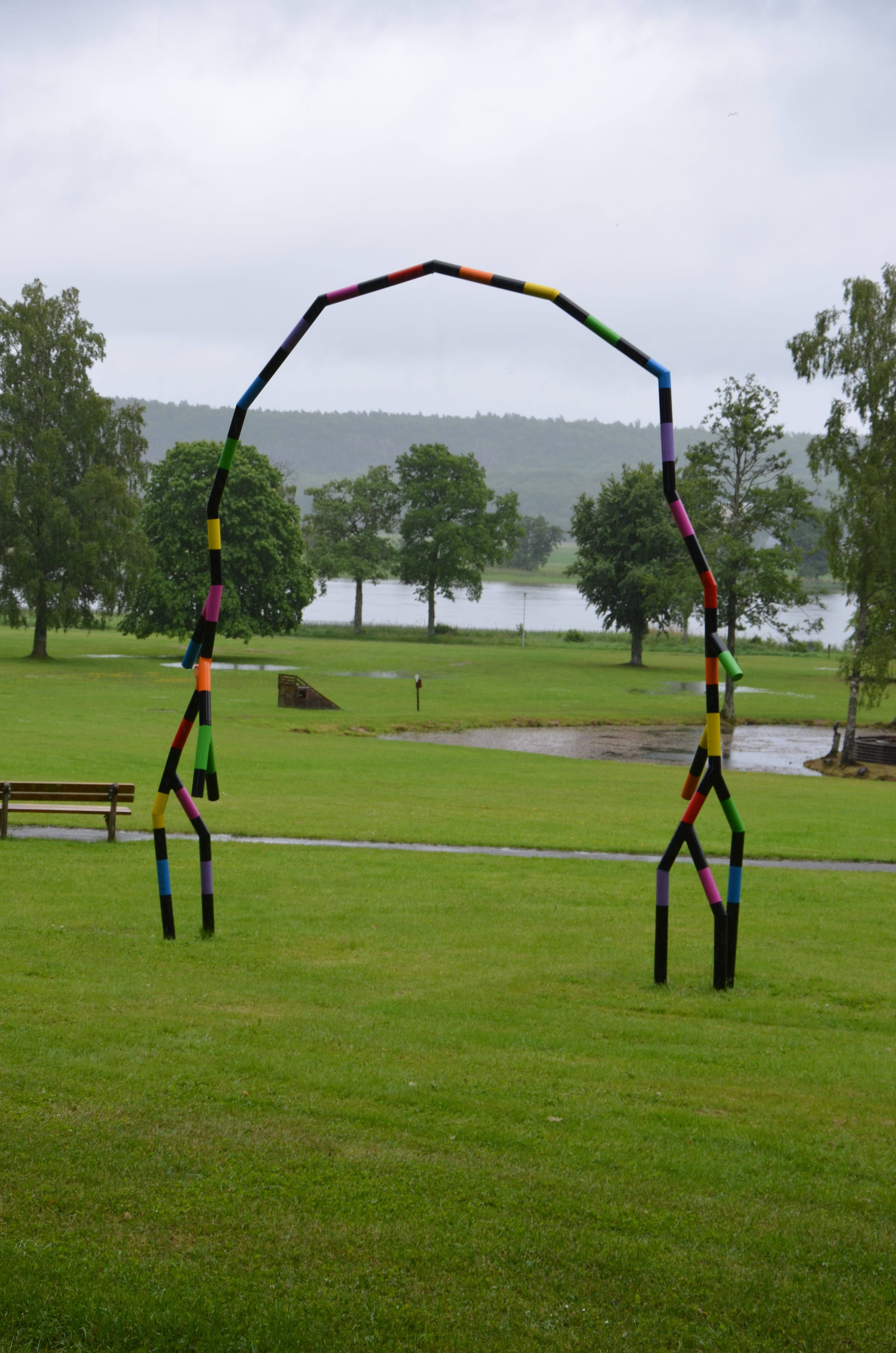 Eva Rothschild´s Someone and Someone, displayed at Skulptur i Pilane in Sweden 2011, erected at Restad gård in Vänersborg, Sweden, 2012